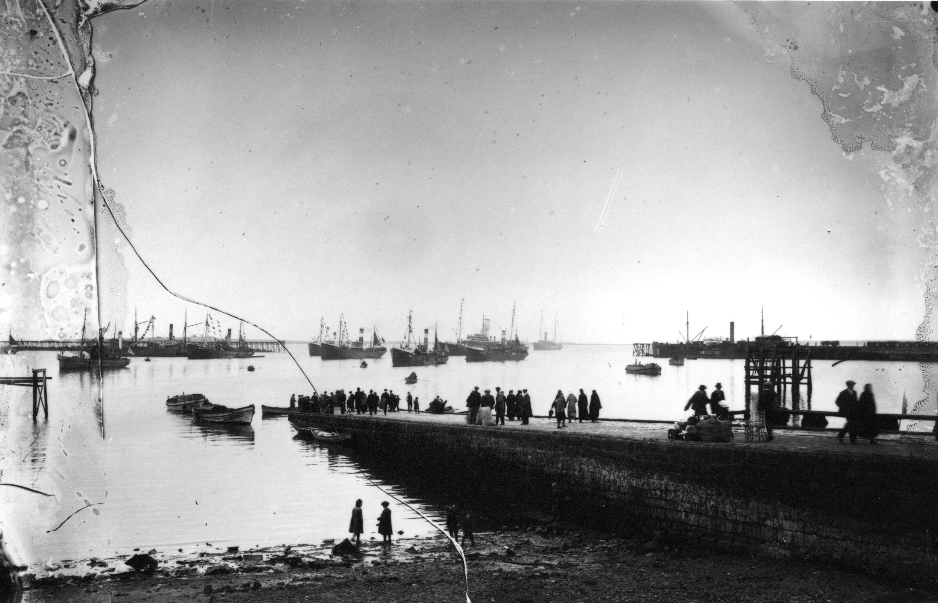 A crowd on the "stone pier" in Reykjavík in 1916. A number of ships are in the harbour, including the trawlers Apríl, Marz, Maí and Gullfoss.